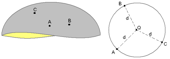 Equipotential surface